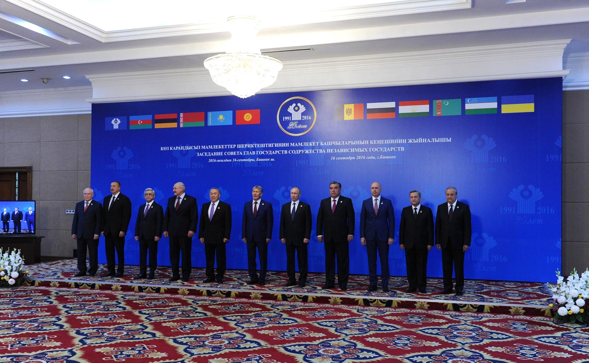 Meeting of CIS Council of Heads of State. September 16, 2016. Bishkek.